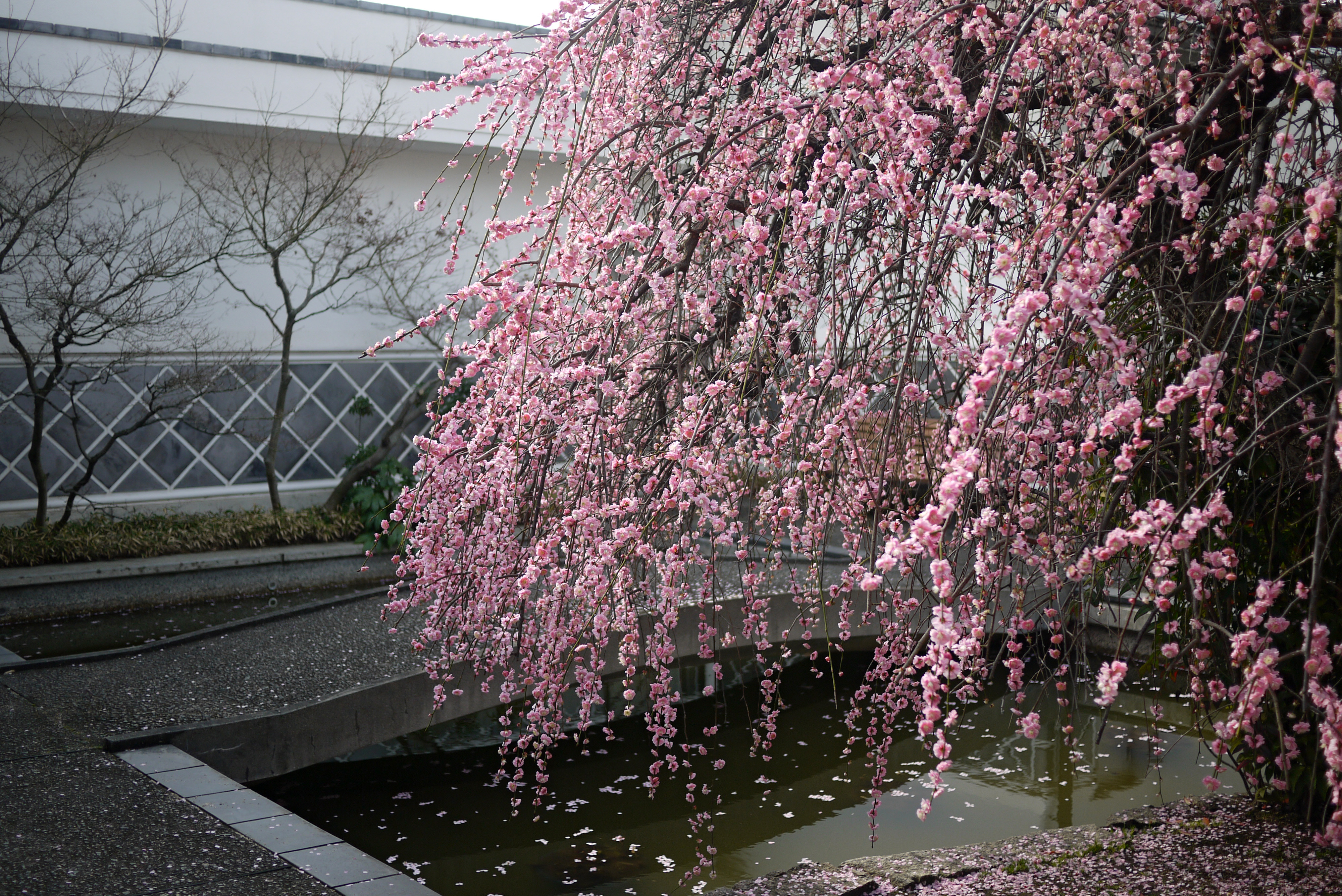 Yumeji Art Museum in Okayama, Okayama prefecture, Japan